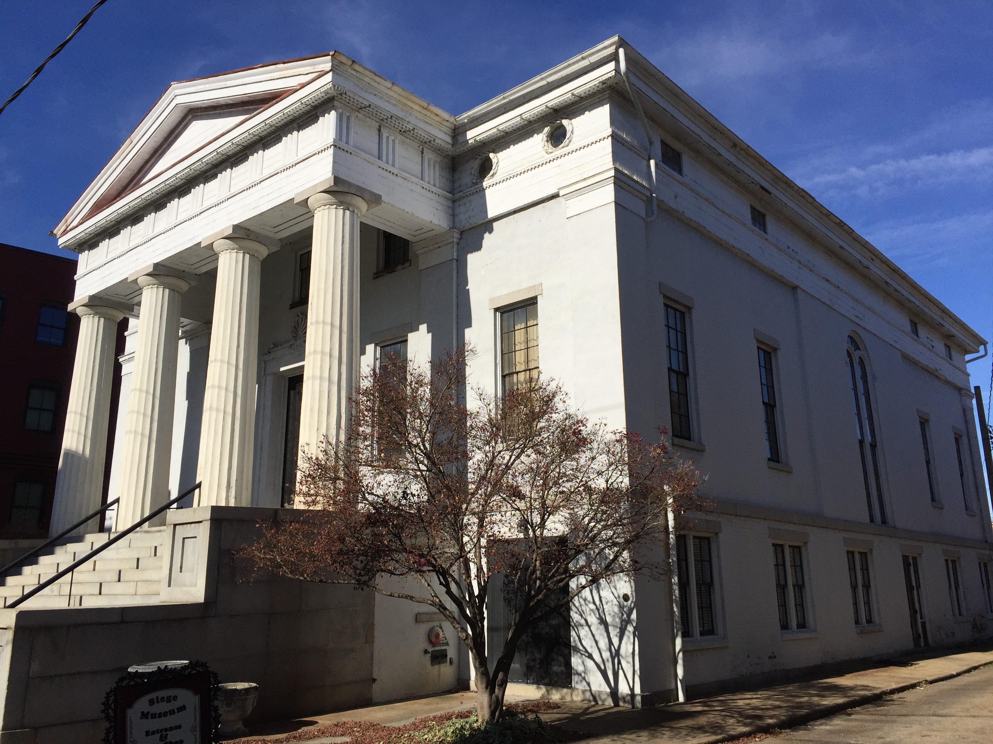 Petersburg Exchange Building, December 2017